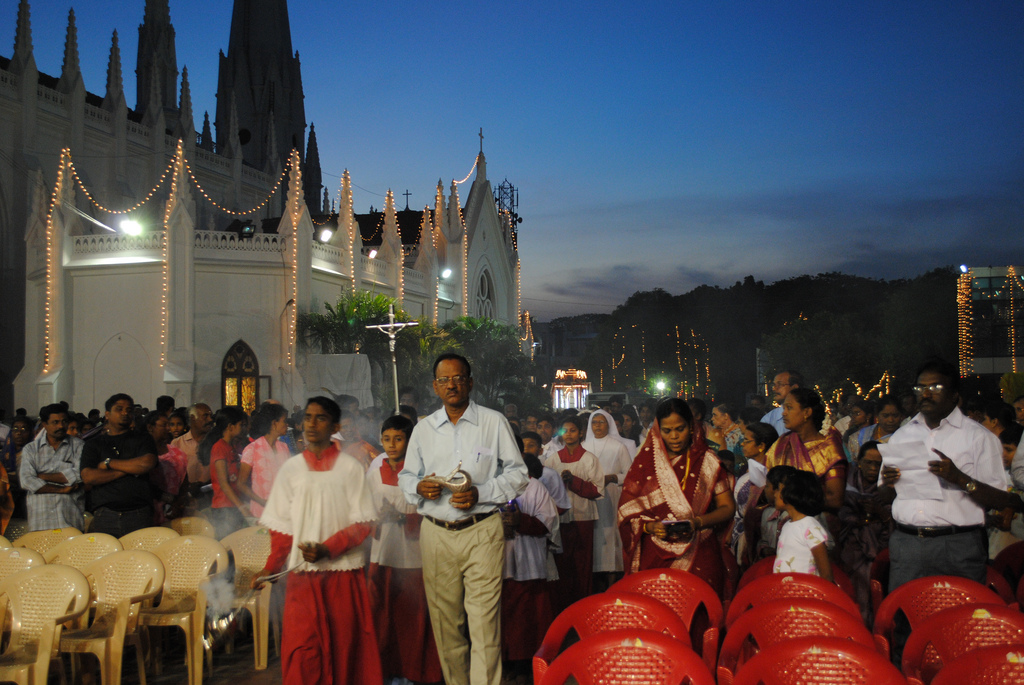 Procession for the Pontifical high Mass celebrated by Bishop Bishop is led through a procession for the concelebrated pontifical high Mass for the feast of our Lady of Mylapore.